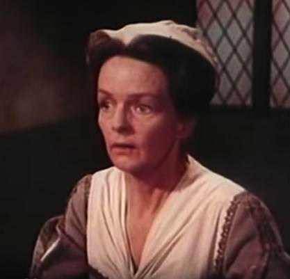 Meg Wyllie in Beauty and the Beast - trailer (cropped screenshot)